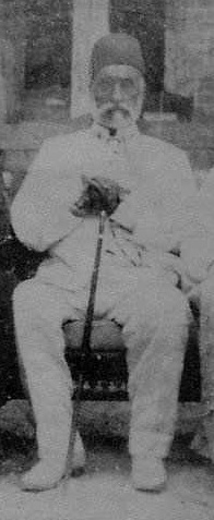 Mustafa Pasha Bajalan sitting in his courtyard